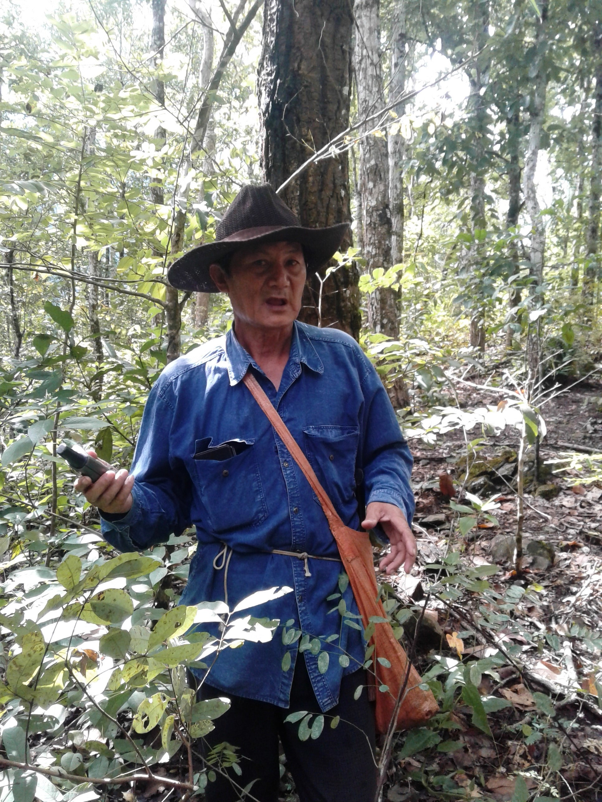 Villager in Ban Thapen is collecting forest products